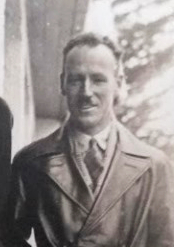 George Baker at the University of Melbourne circa 1930 - detail from a photo in the archives of the State Library of Victoria.